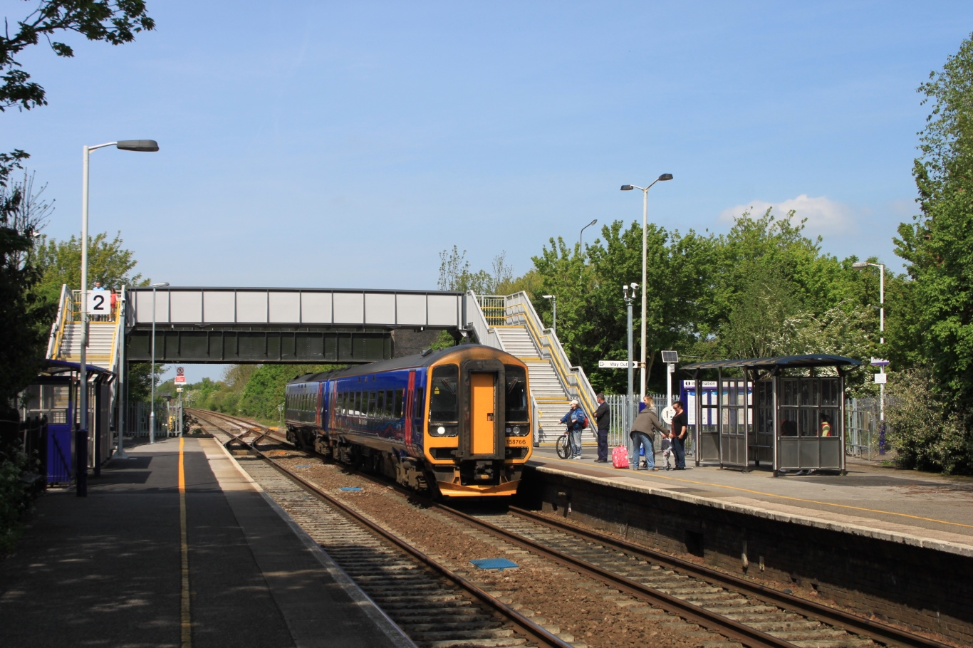 First Great Western's 158766 arrives at Highbridge and Burnham station in Somerset with a Cardiff to Taunton service.